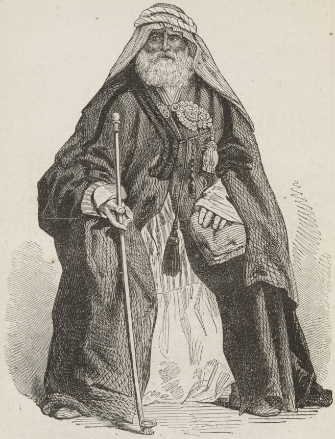 Sheik Houssein Ibn-Egid. Portrait of a sheik with a beard carrying a cane/pipe.